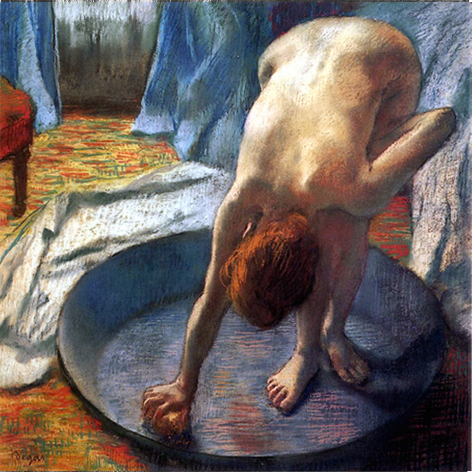 Le tub